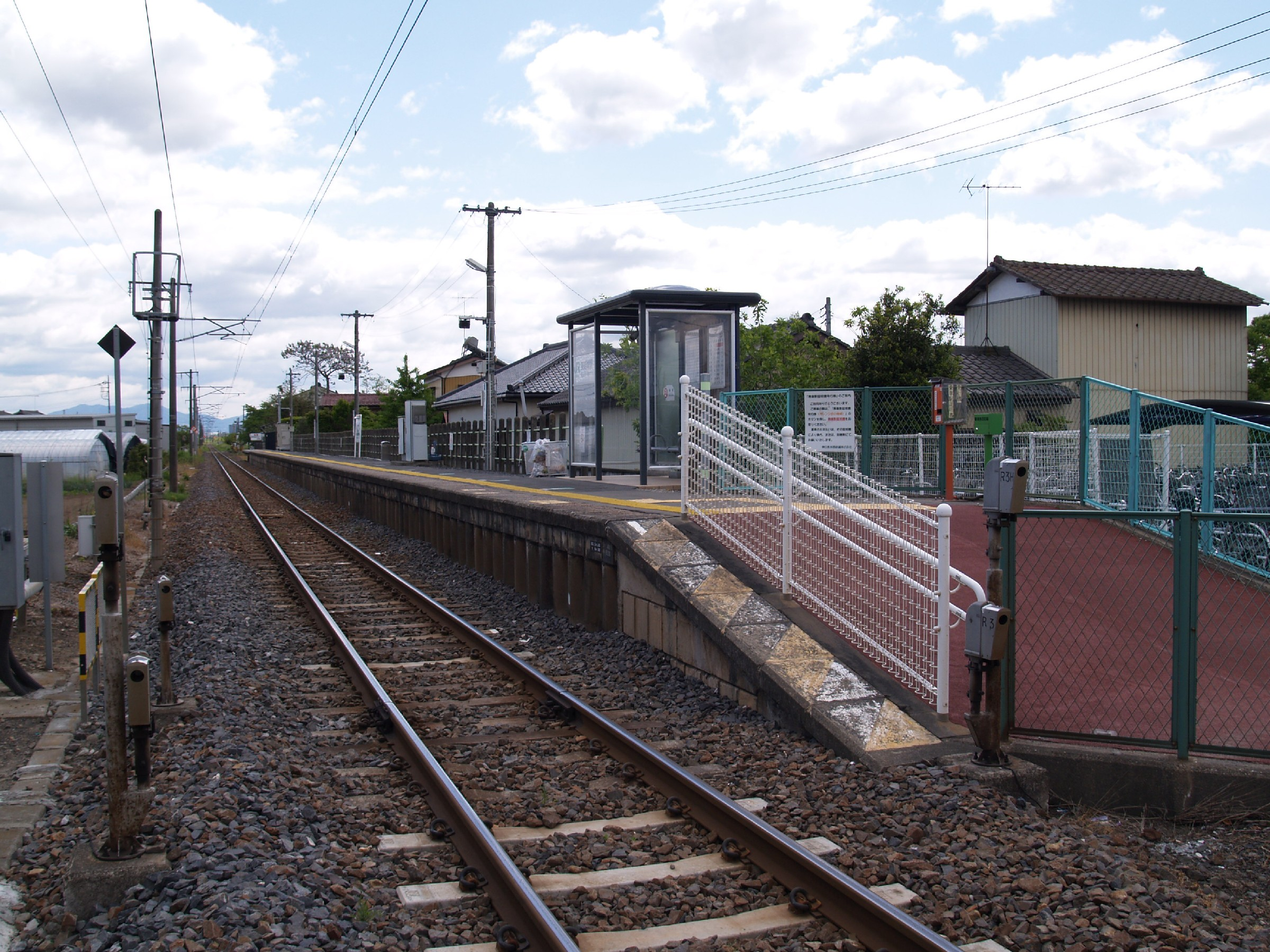 Higashi-Yuki Station